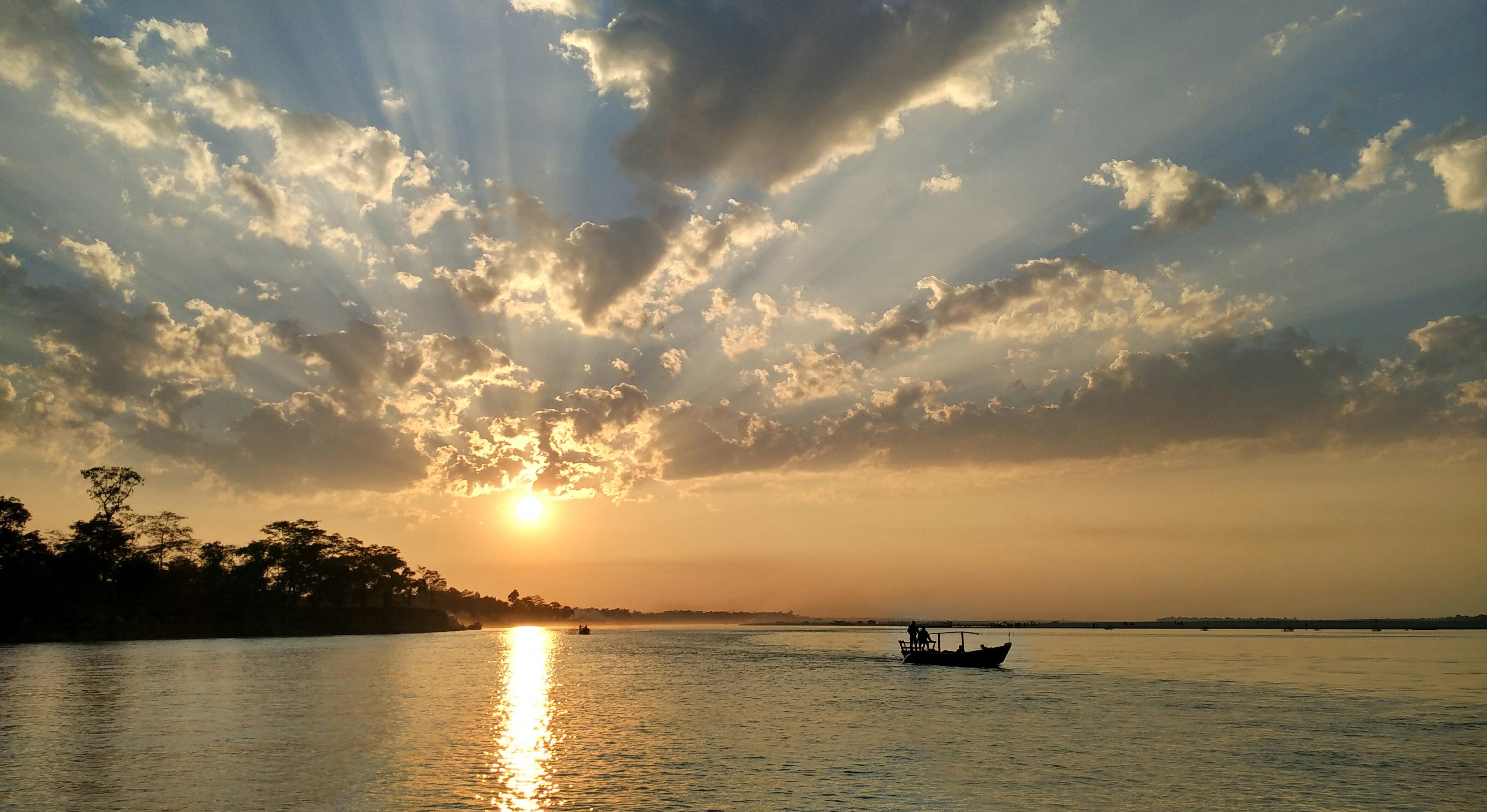 This is a view from Dibru Saikhowa National Park. The great Brahmaputra River flows through its heart which is home to the rare species of Gangetic river dolphins.